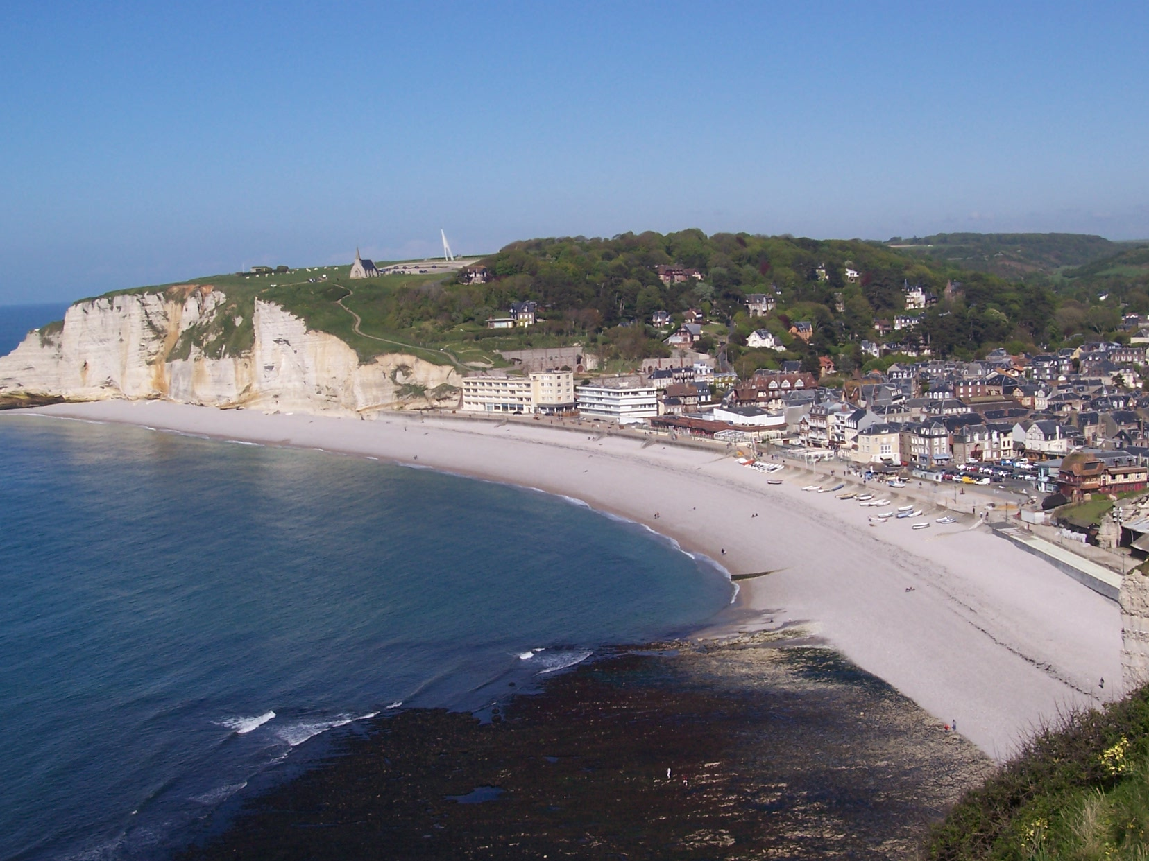 Etretat since cliffs downstream